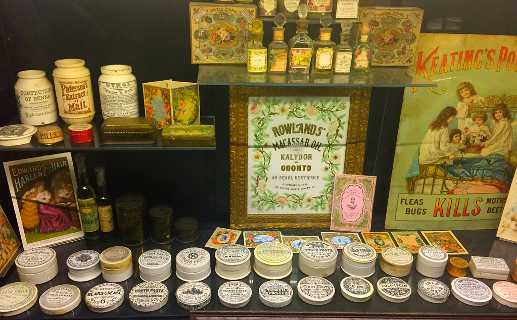 This image displays Victorian era Cosmetics such as cold creams, hair restorer and various oils